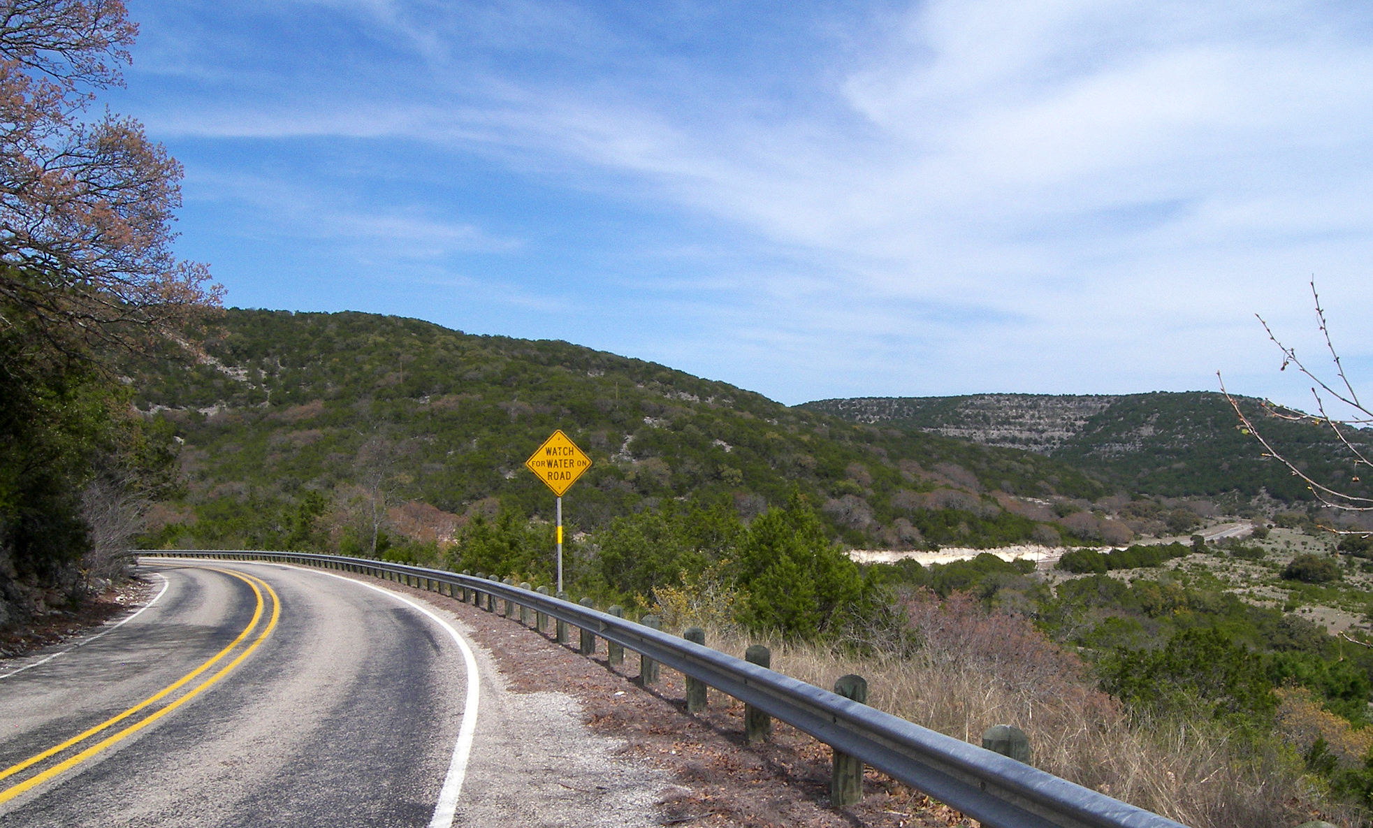 Looking northeast on Ranch to Market Road 337 winding through the Texas Hill Country about four miles west of Leakey.